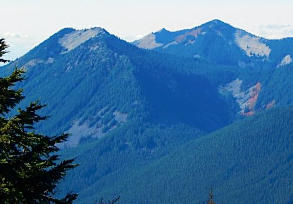 Bandera Mountain (left) seen from Mount Catherine with Mount Defiance to the right.